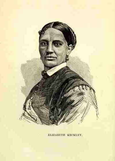 Engraving from "Behind The Scenes", an autobiography of Elizabeth Keckley.